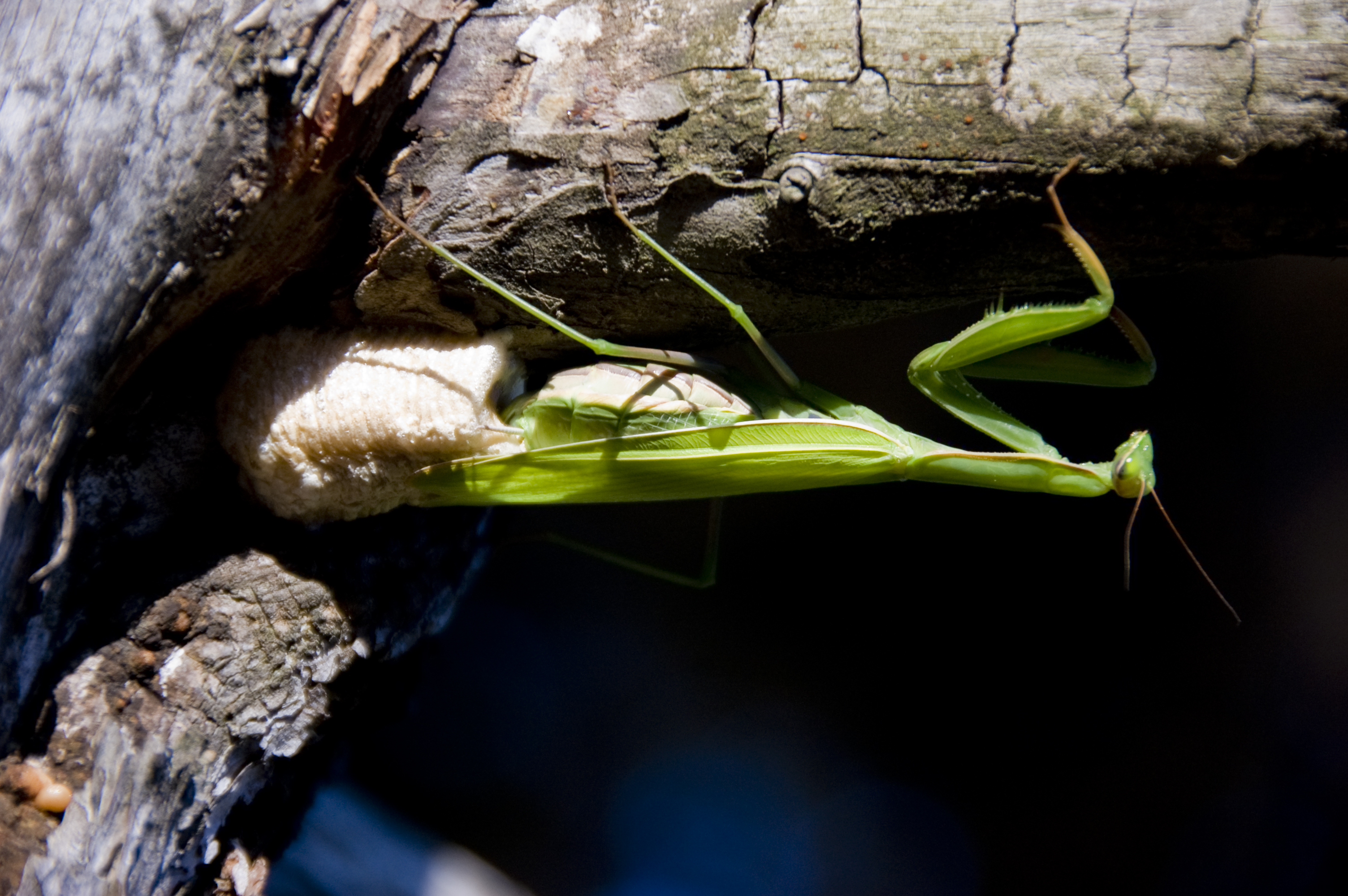 Mantis religiosa (european mantis) laying eggs.